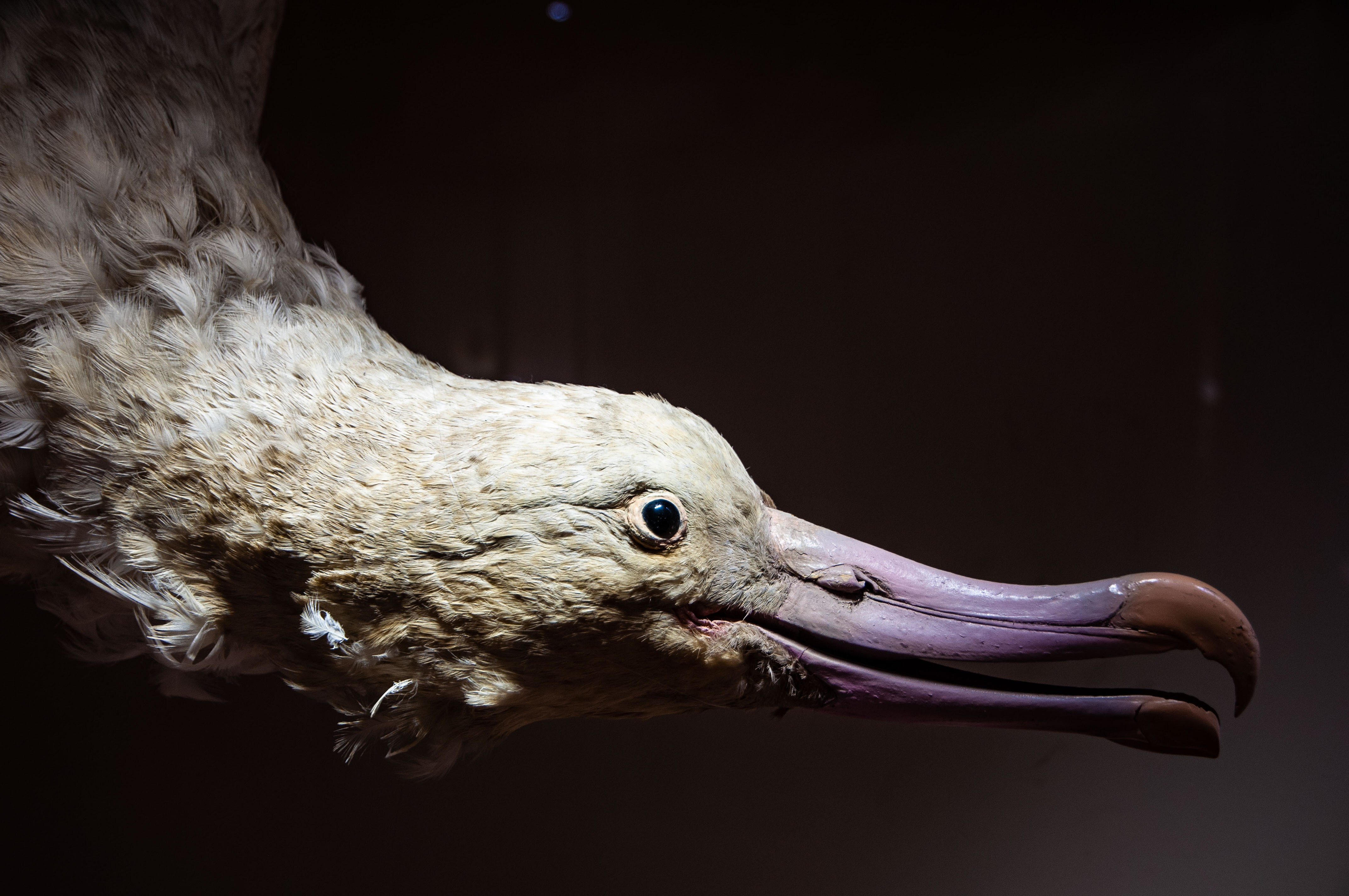 Naturalised howler albatross on display in the Whale Room of the Oceanographic Museum of Monaco.